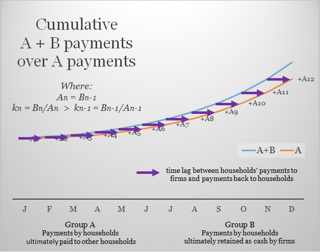 This is a visual example of the A+B Theorem.